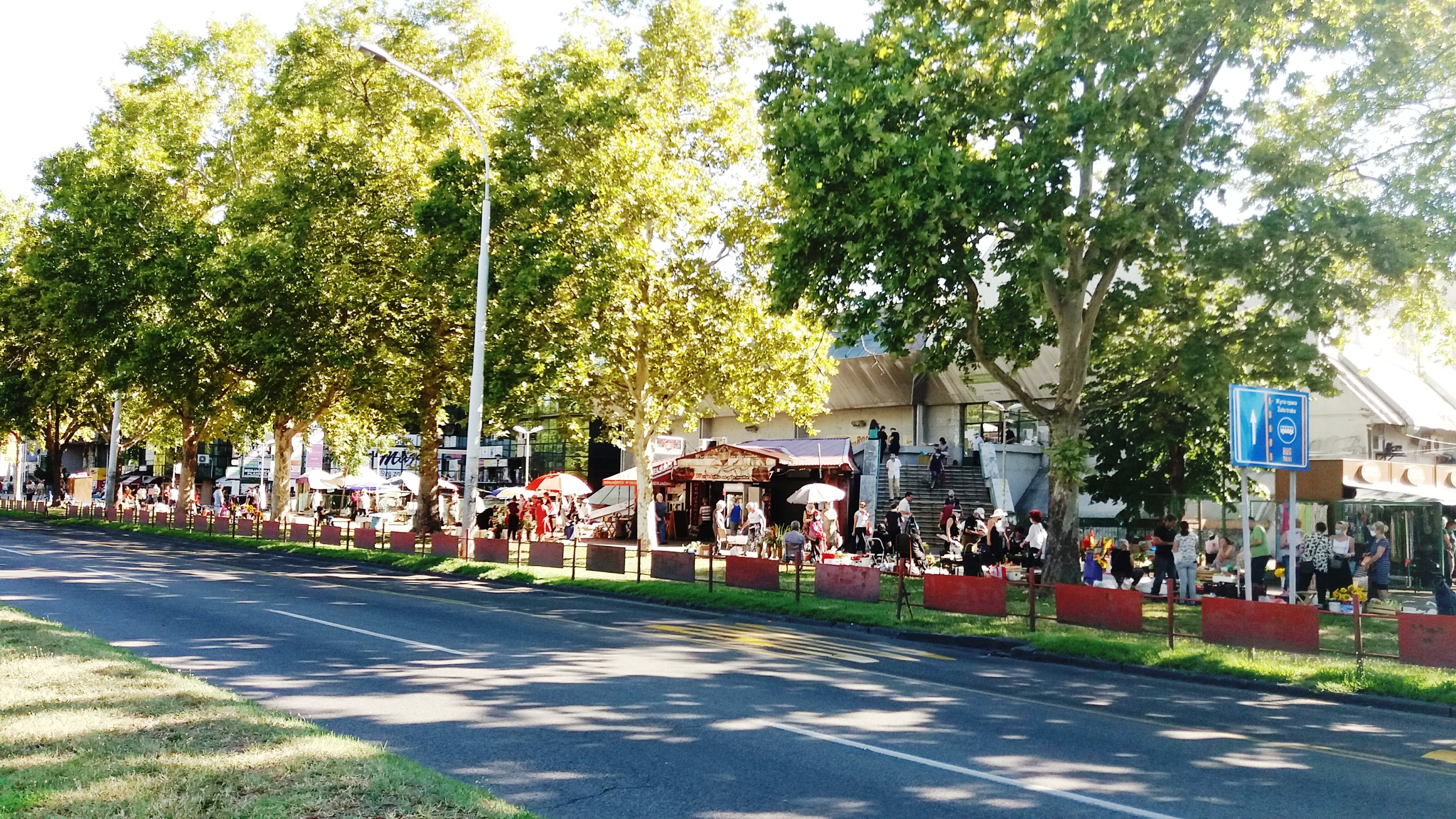 TC Stari Merkator, Block 11c, New Belgrade